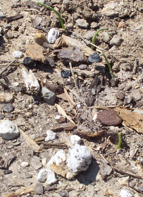 Blue Funnel Lily seedling (Androstephium caeruleum)